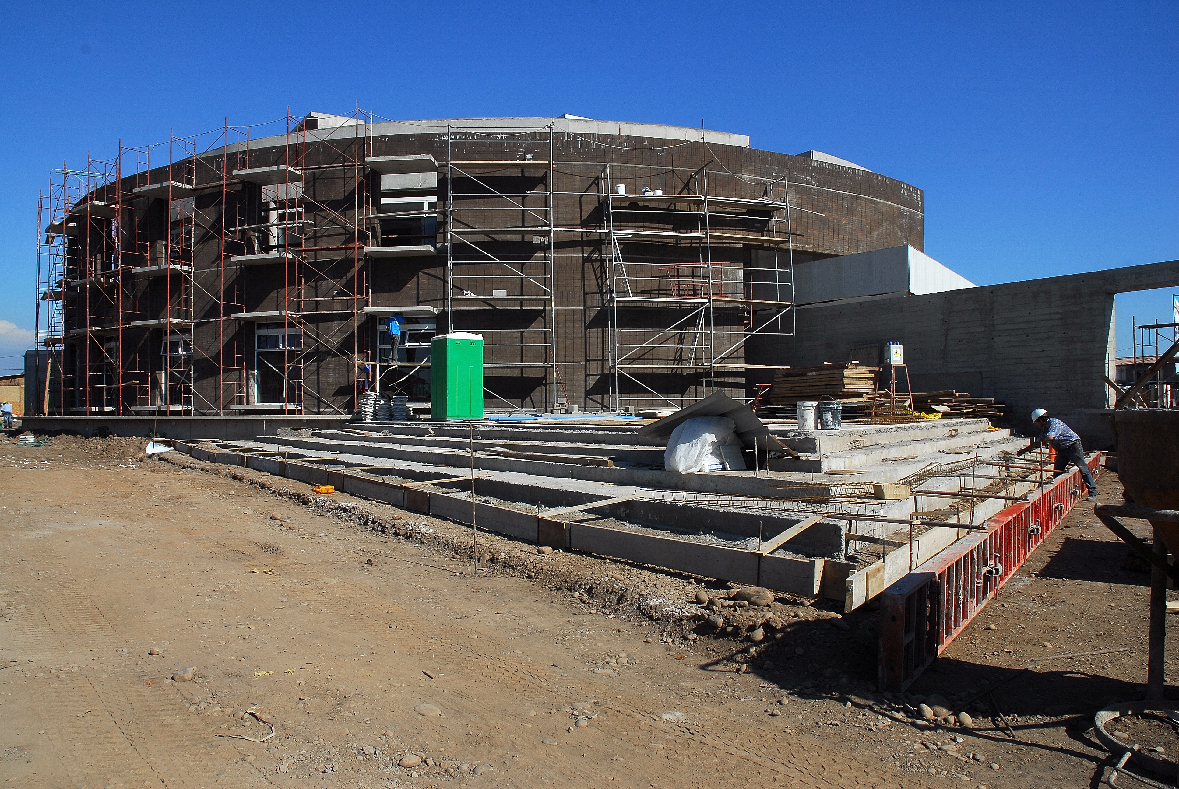 Centro Cívico Cultural El Bosque